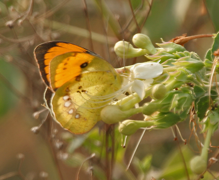 White Orange Tip Ixias marianne at Hodal in Faridabad District of Haryana, India.